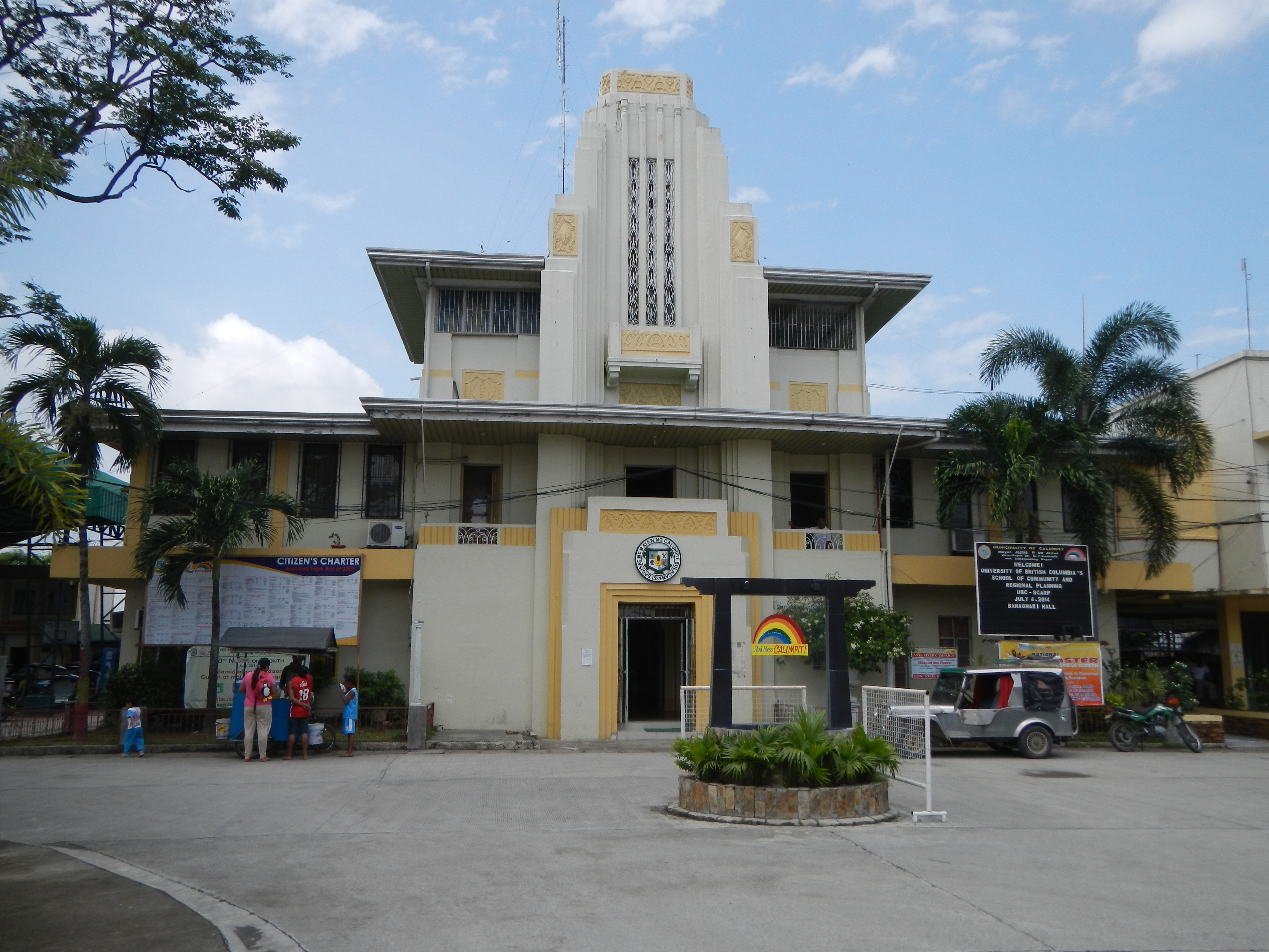 Barangay Balungao, Calumpit, Bulacan Purok 1, Provincial Road cor.Purok IV where the Calumpit, Bulacan Municipal Hall Complex Compound, including the Police station, Giant Water Disctrict Tank, "God Bless Calumpit" Welcome sign, Senior Citizens Center, Bureau of Fire Protection, [1] "Sergio Bayan Park Bantayog ng Kasaysayan ng Calumpit", Barangay Hall of Balungao, Calumpit, Bulacan along the interior Pulilan-Calumpit-Malolos-Hagonoy Provincial and National Road.